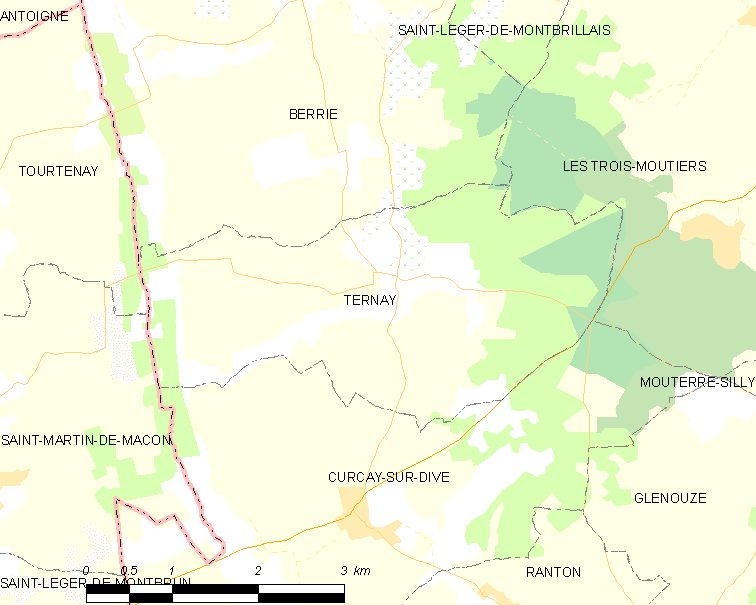 Map of French municipality Ternay